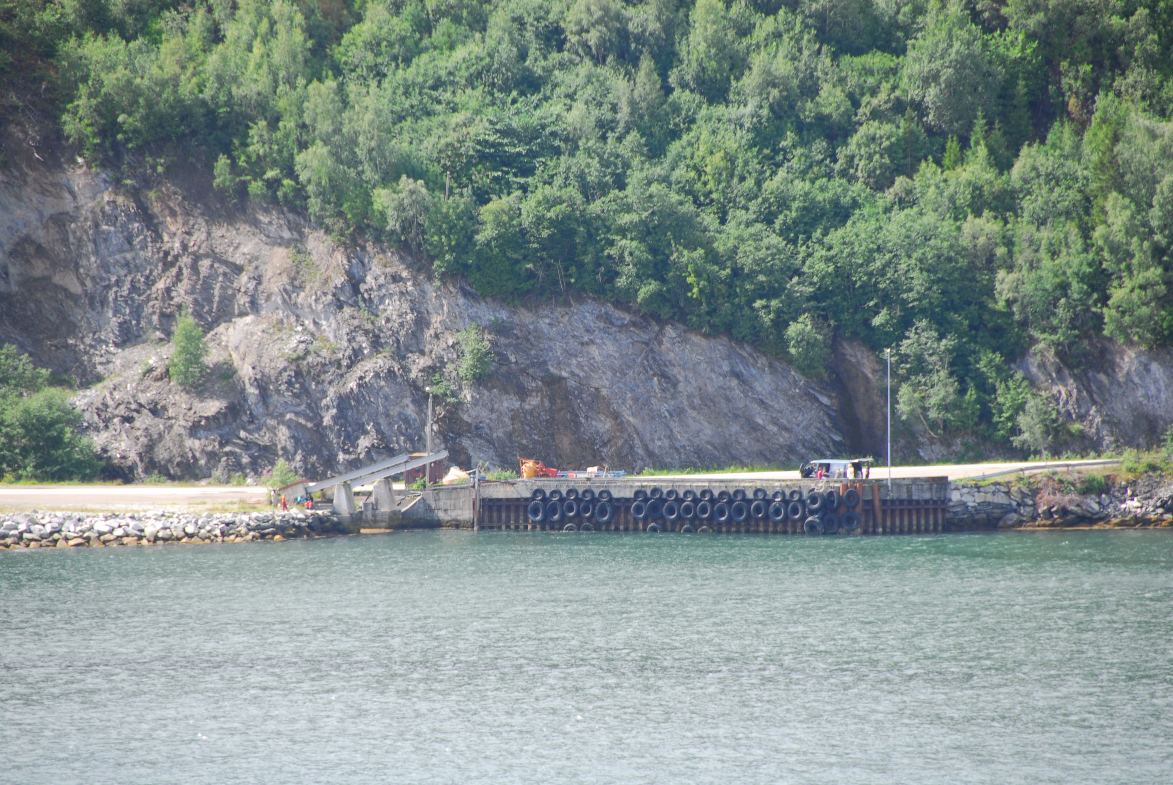 Kjerringvik in Mosvik, Norway; former quay for the Vangshylla–Kjerringvik Ferry.